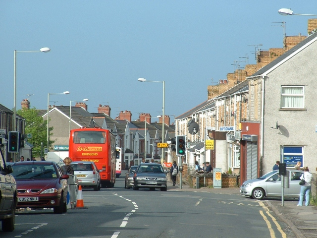 Pyle. Looking down Bridge Street towards Pisgah Street